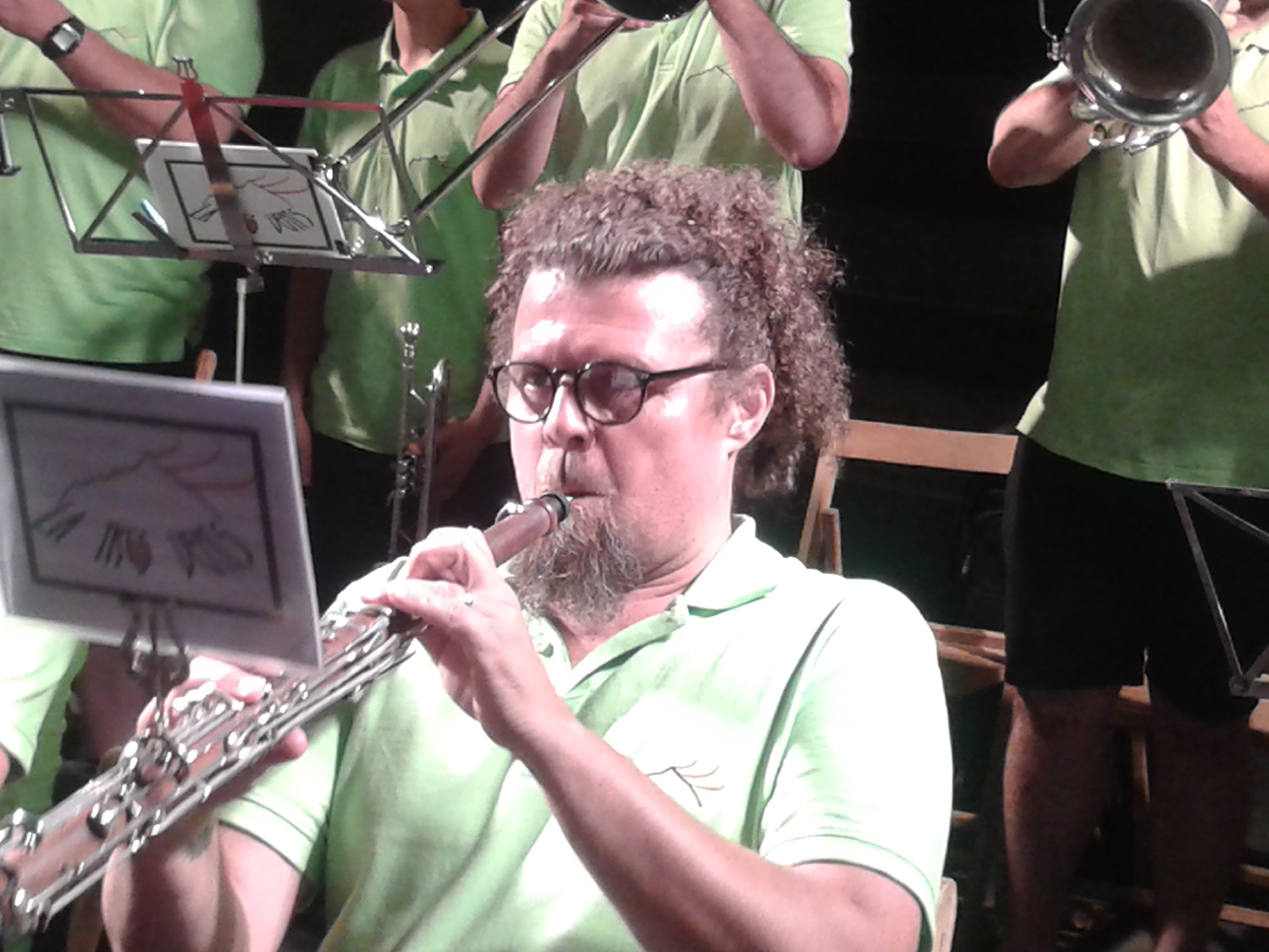 Olivier Marquès, performing with the cobla Tres Vents in Tiana, the 26th of July, 2017